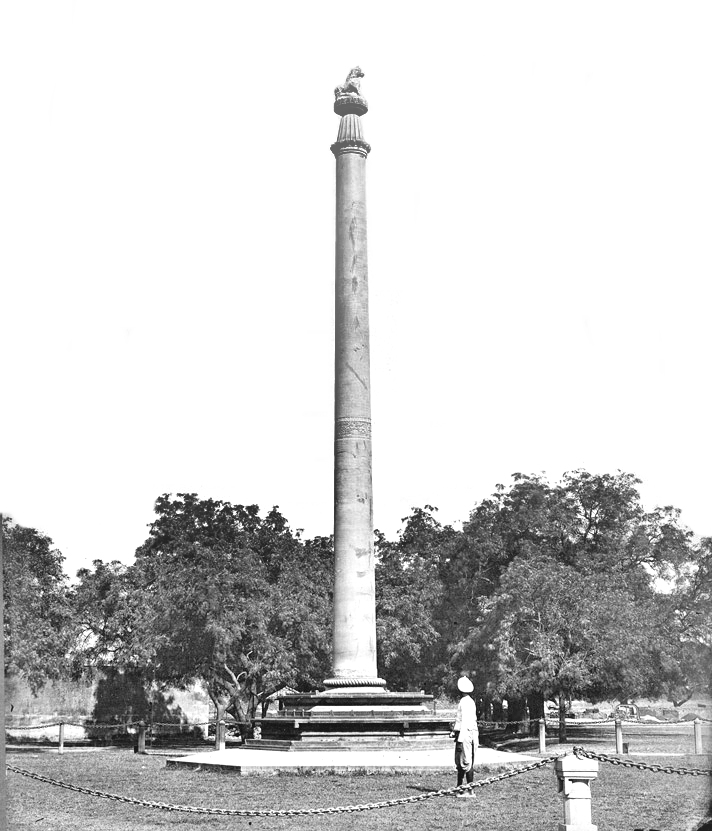 The 3rd century BCE Ashoka Pillar in Allahabad, from an Album of Miscellaneous views in India, taken by Thomas A.Rust in the 1870s. The pillar also contains inscriptions on Samudragupta and Jahangir. This pillar was originally erected in the 3rd century BC by the Mauryan emperor Ashoka. The pillar was moved to Allahabad, in front of the gateway to the Allahabad Fort, in 1583 by Akbar. The pillar made of polished stone extends 10.7 m in height and is incised with an Ashokan edict. For a modern photograph (original abacus on a 19th century base) here